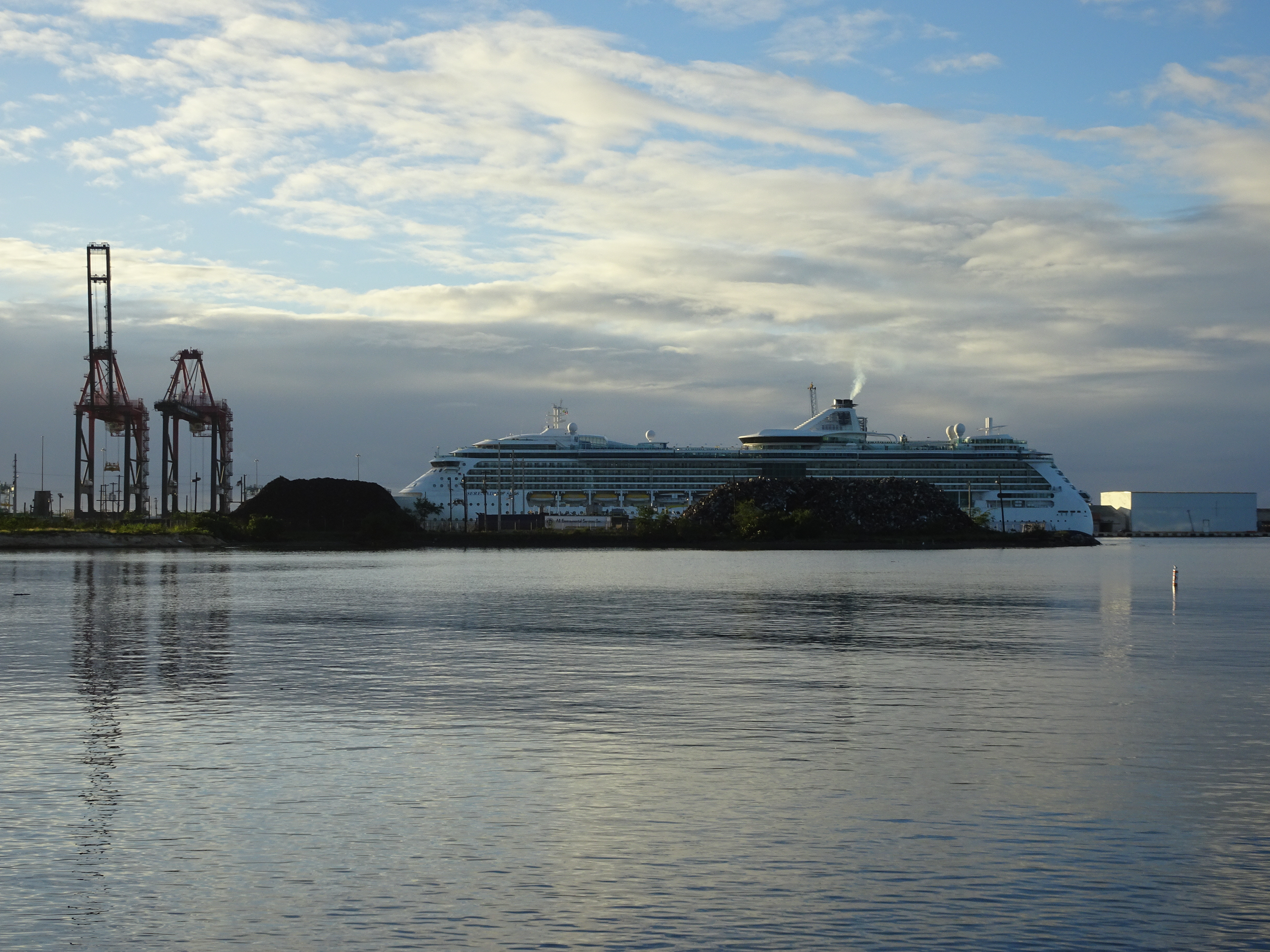 Crucero 'Serenade of the Seas' anclando en el Puerto de Ponce, Ponce, Puerto Rico, mirando al sureste (DSC03103)